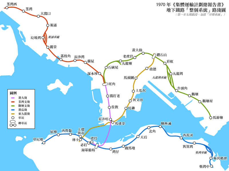 1970 "Hong Kong Mass Transit: Further Studies", Mass Transit Railway "Preferred System" Route Map